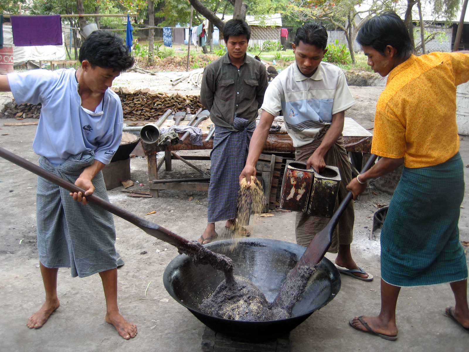 The Burmese tradition of making special sticky rice htamanè; Mandalay, Myanmar.